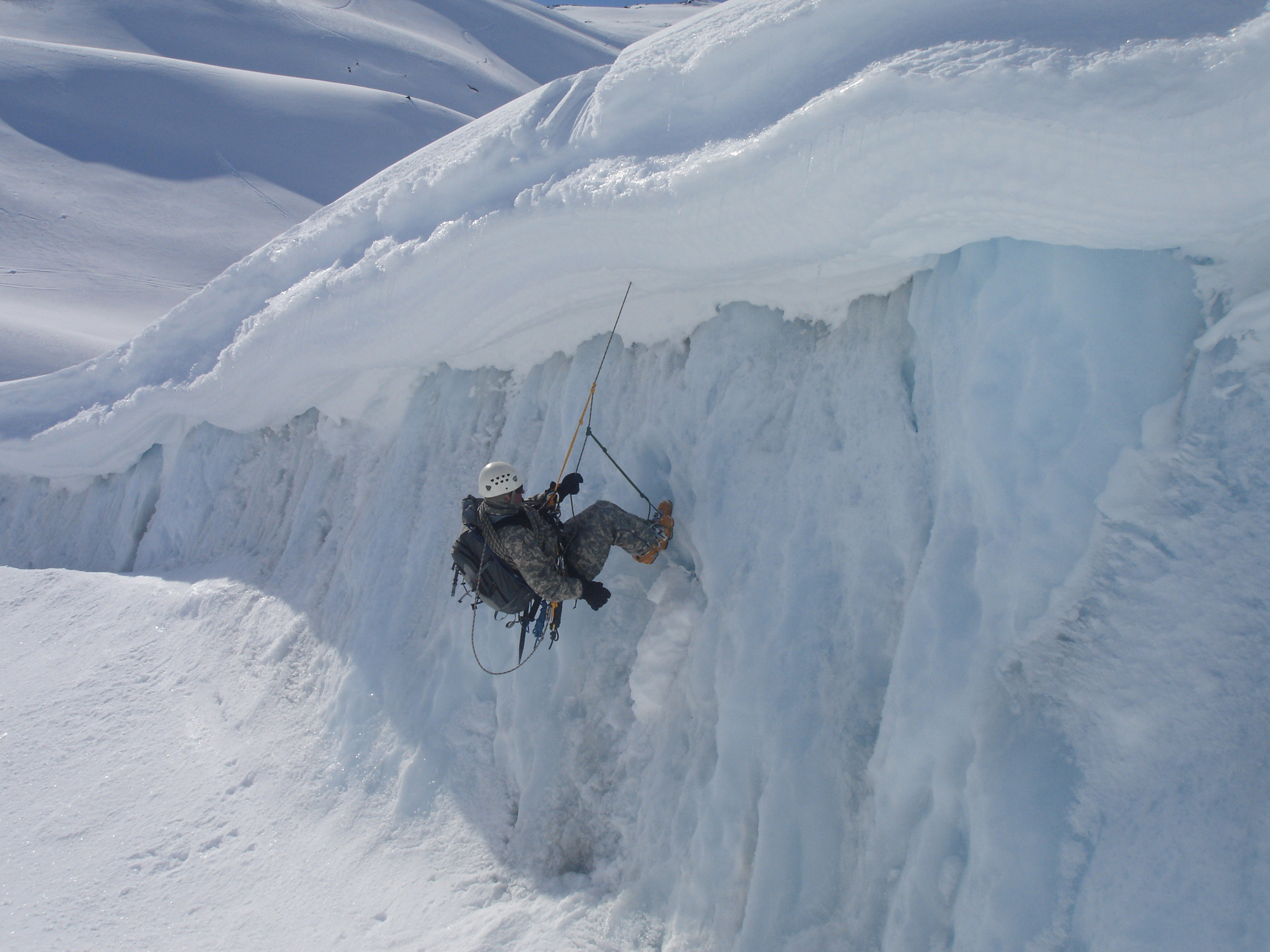 A 10th Special Forces Group (Airborne) Mountaineer climbs out of Worthington Glacier during the United States Army Special Forces Command (A) Master Mountaineer course.